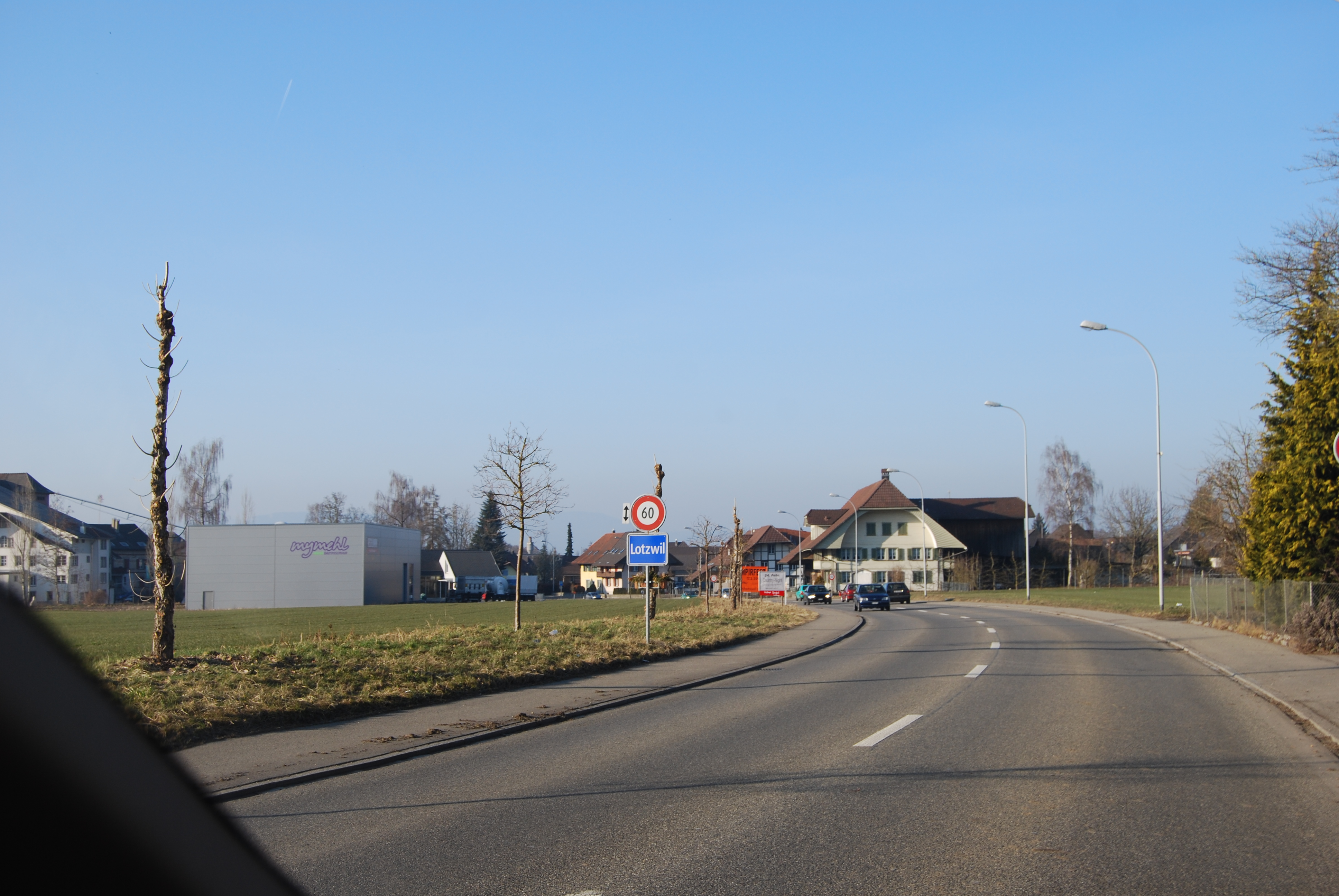 Lotzwil, canton of Bern, SwitzerlandEsperanto: Lotzwil, Kantono Berno, Svislando